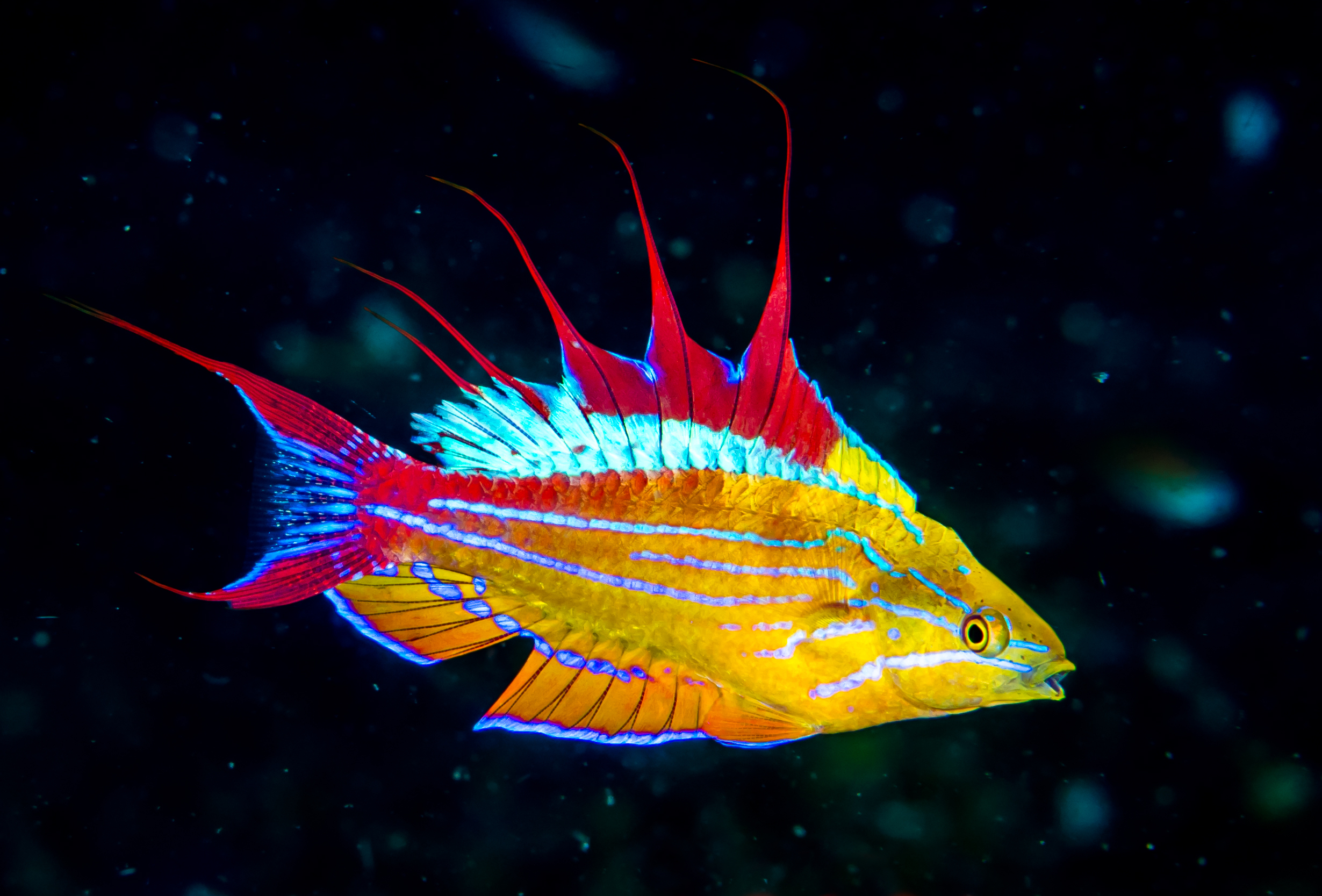 Lembeh, Indonesia - Paine's flasher wrasse (Paracheilinus paineorum)